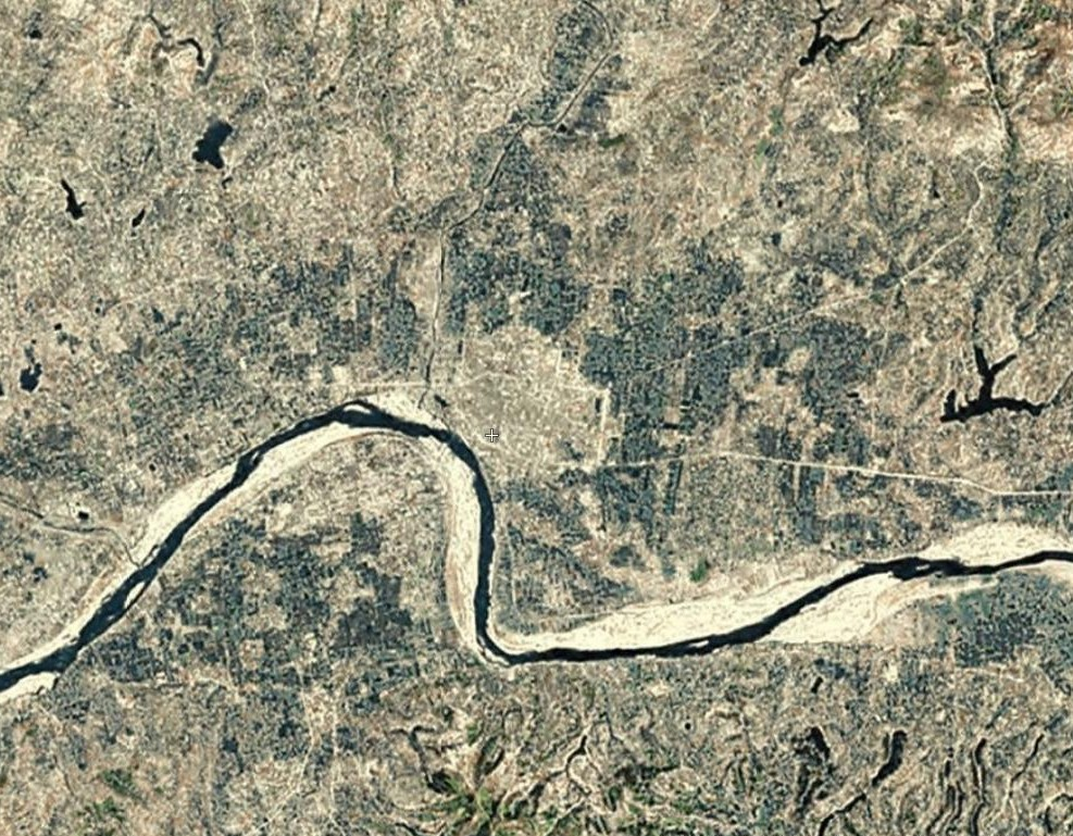 Satellite image of Yang county, Shaanx province, China